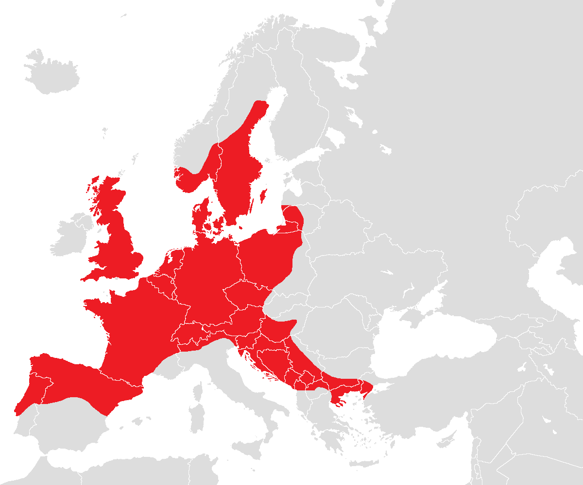 Distribution of Anguis fragilis